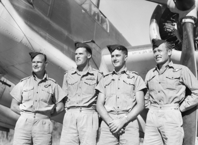 Probably Higgins Field, Townsville Qld or Horn Island, Qld. Crew of No. 7 (Beaufort) Squadron RAAF that shot down Japanese aircraft, Allied code name "Jake", standing in front of a DAP Beaufort bomber aircraft. Left to right: Observer Flying Officer (FO) Basil Walters of Victor Harbor, SA; Pilot FO Peter Hopton of Hindmarsh, SA; Air Gunner Flight Sergeant Ron Stoner of Wayville, SA.